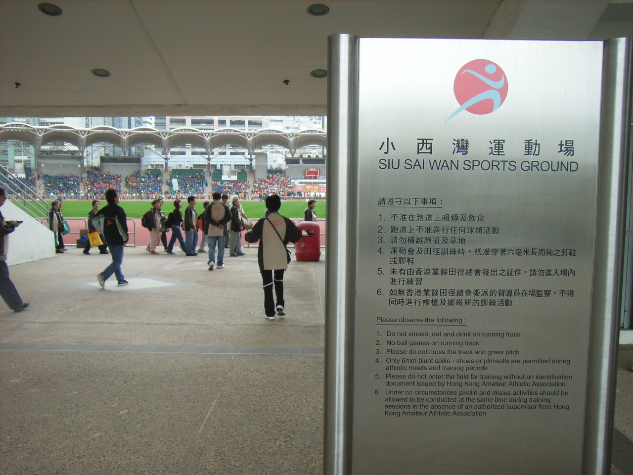 小西灣運動場, Siu Sai Wan Sports Ground Author= User:BLUEAST